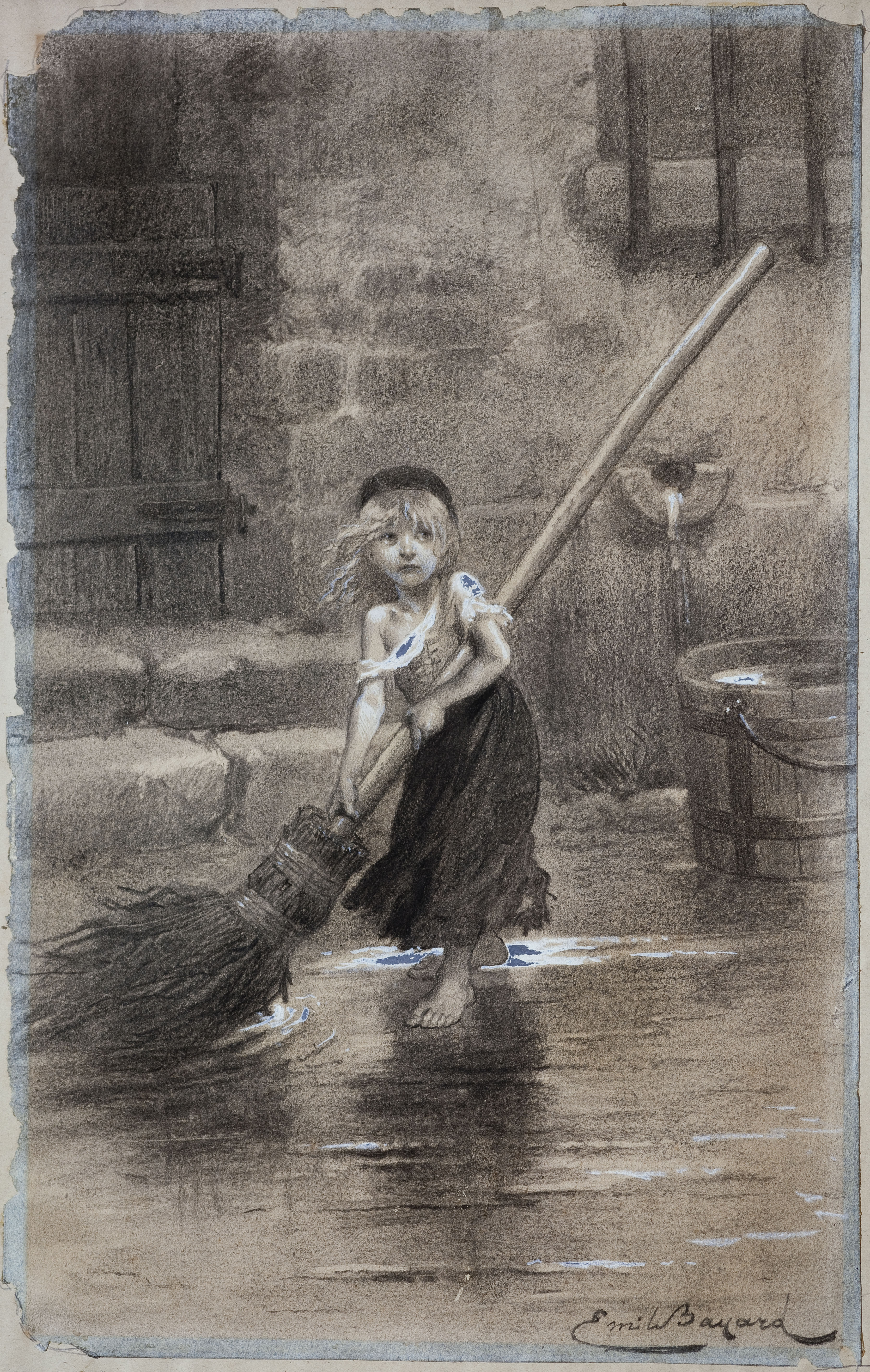 Young Cosette sweeping: 1862 drawing for Victor Hugo's Les Miserables. French illustrator Émile Bayard drew this sketch of Cosette for the first edition. It has become emblematic of the entire story, being used in promotional art for various versions of the musical.